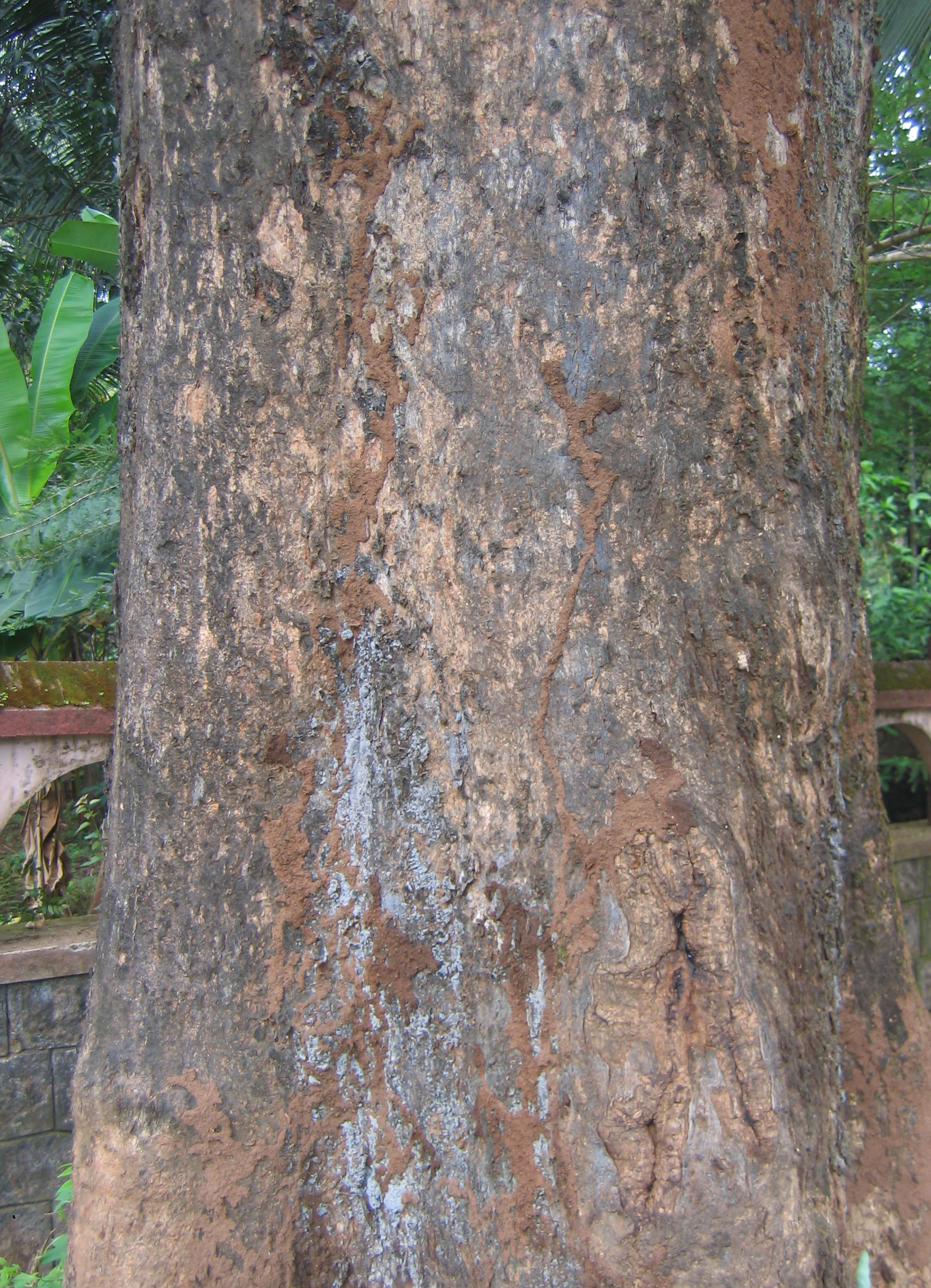 Terminalia bellirica bark